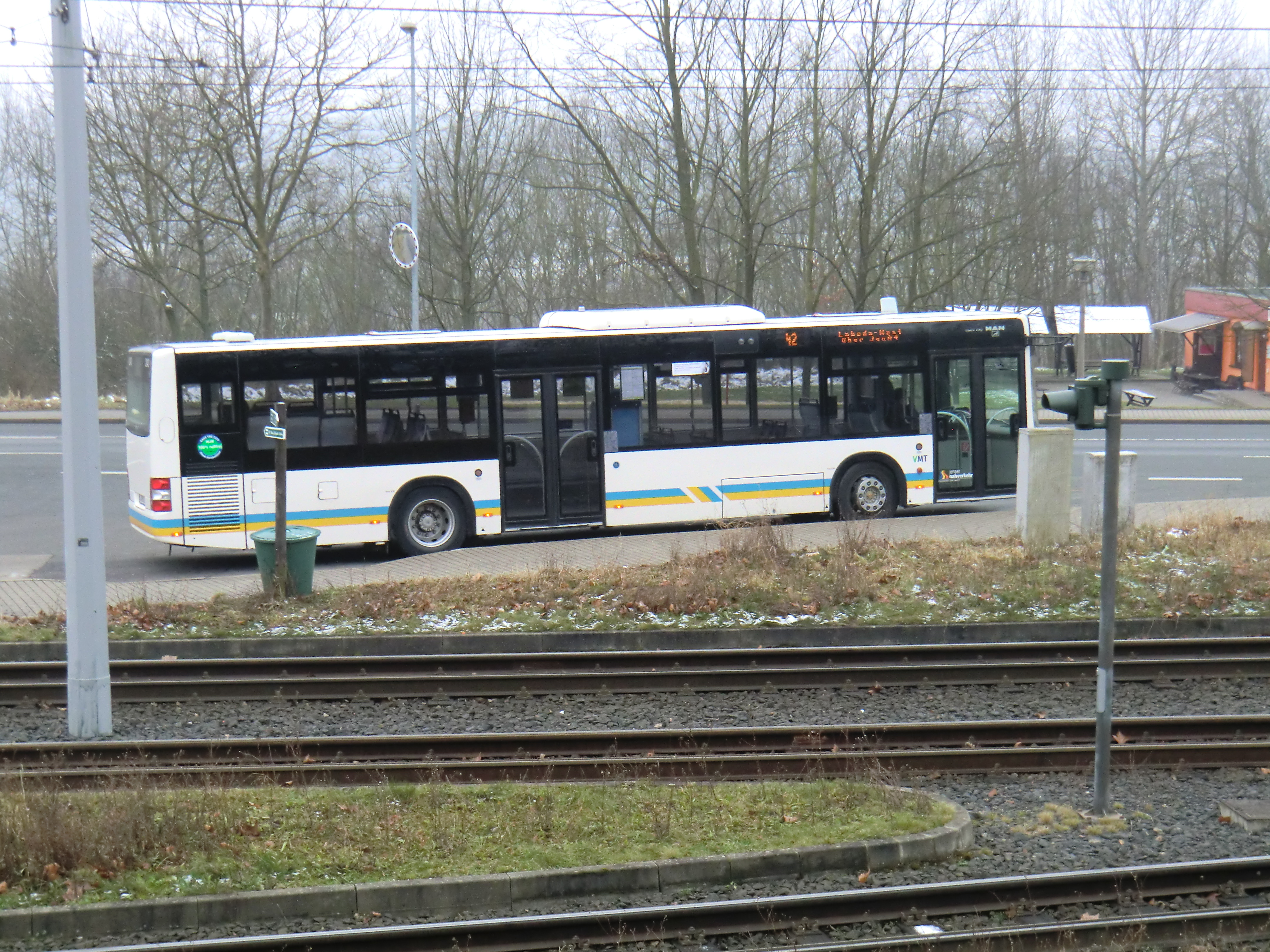 JeNah bus on line 42, at the terminal in Lobeda-Ost (Jena, Germany)